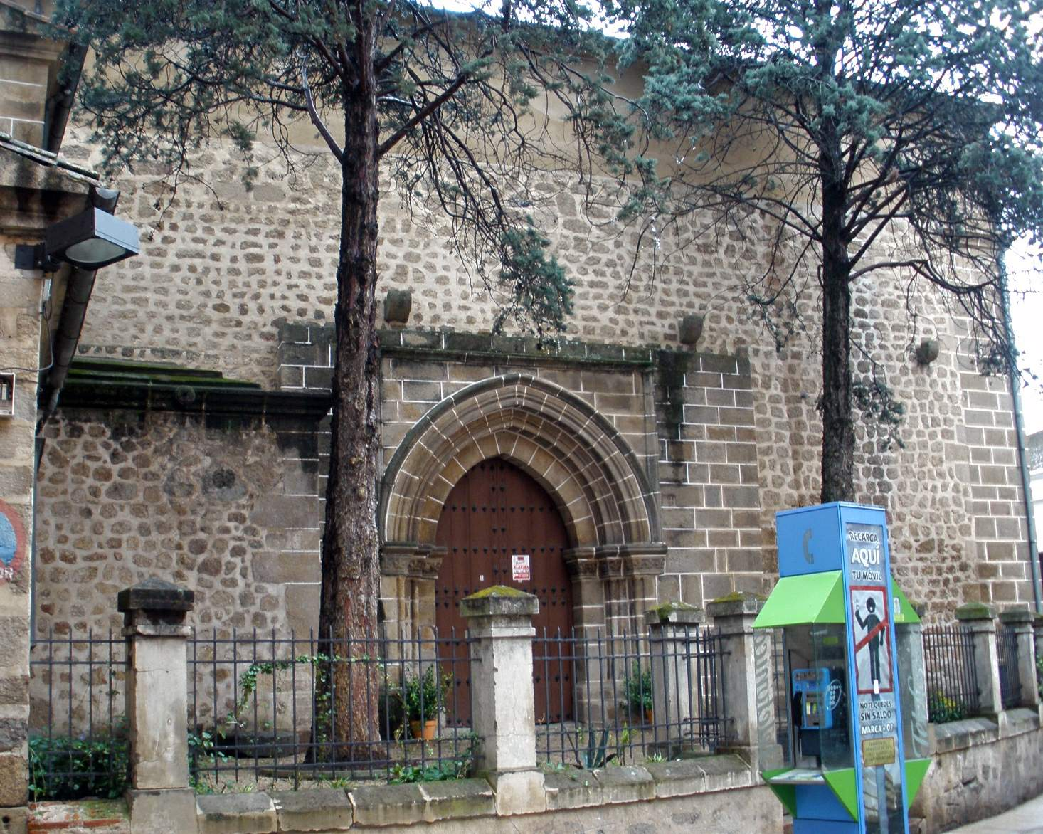 Iglesia de San Esteban (Plasencia)